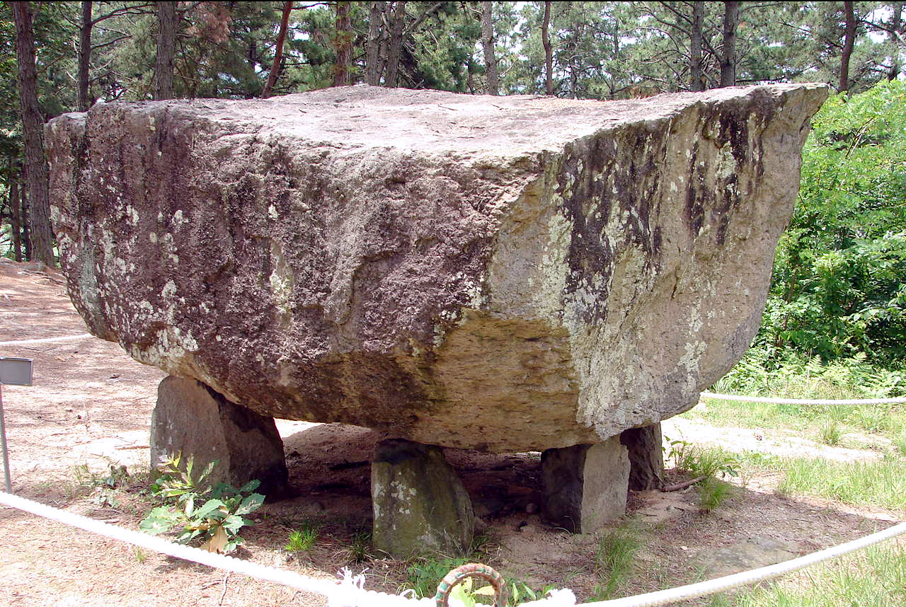 This is one of the dolmens at the Gochang Jungnim-ri Dolmens and are centered in Maesan village, Gochang County, North Jeolla province